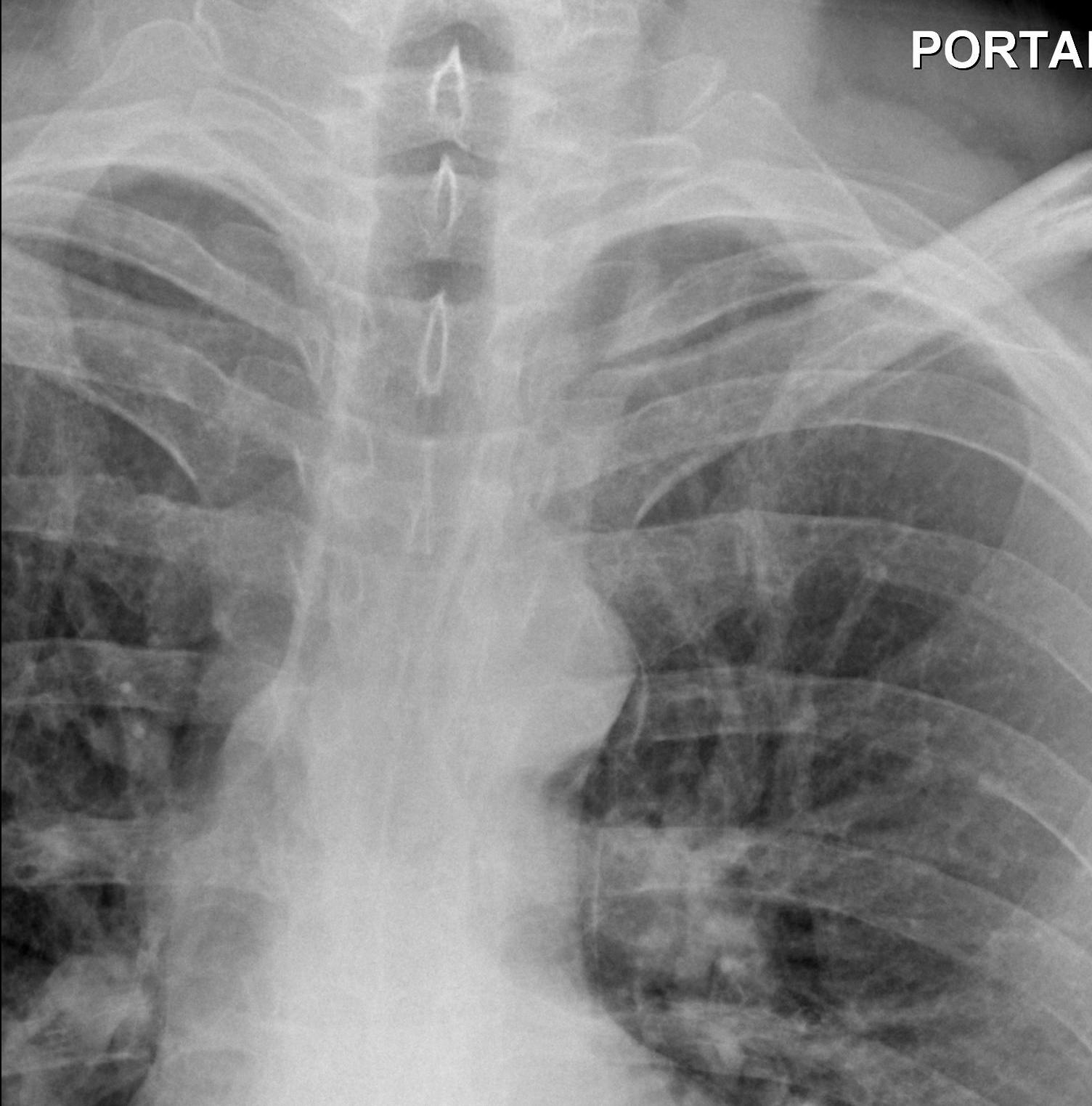 Upright chest radiograph showing pneumomediastinum adjacent to the thoracic aorta and left common carotid artery